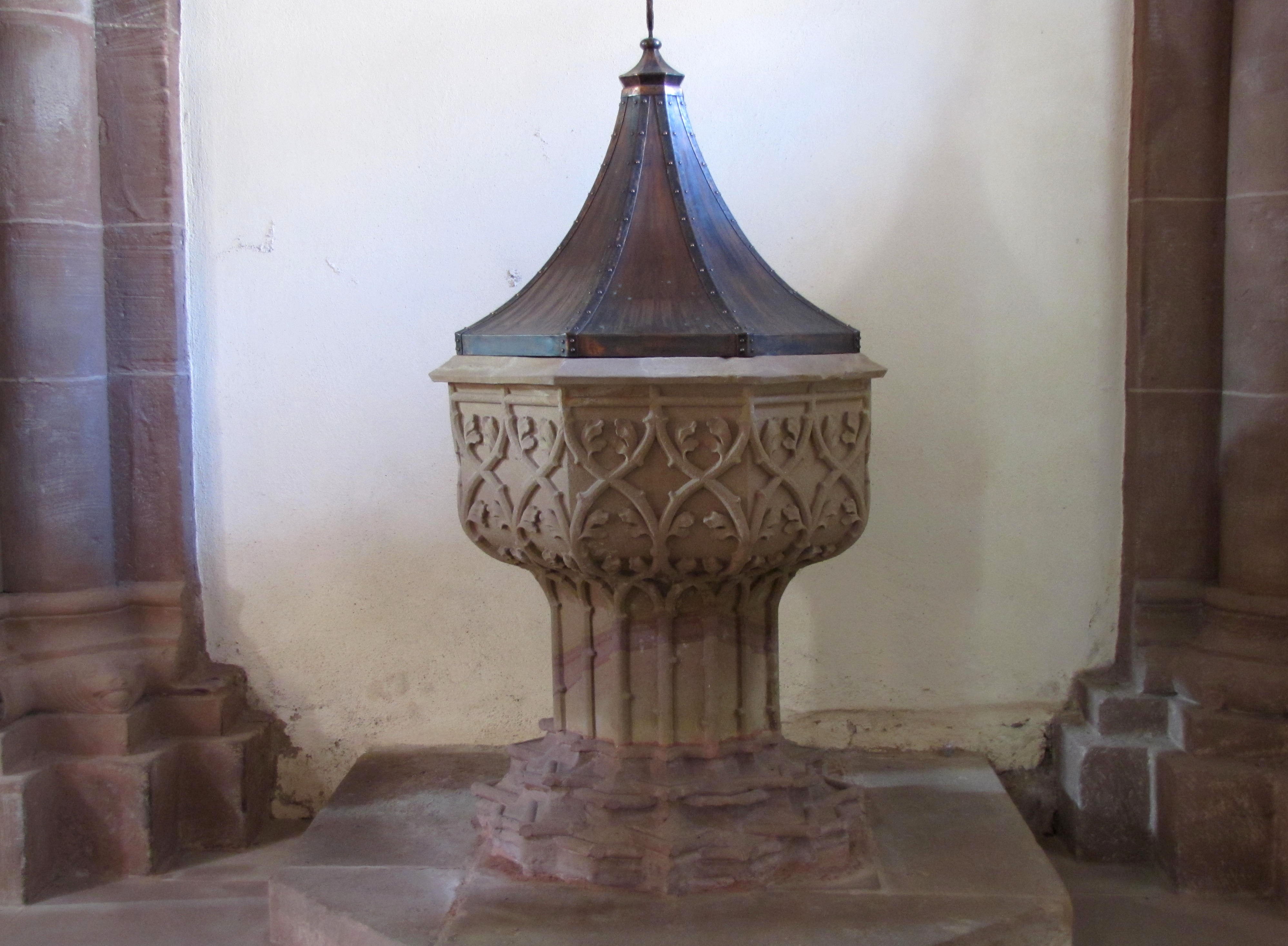 Alsace, Bas-Rhin, Altorf, Église abbatiale Saint-Cyriaque (PA00084581, IA67011108). Fonts baptismaux gothiques (XVe). This object is classé Monument Historique in the base Palissy, database of the French furniture patrimony of the French ministry of culture, under the references PM67000007 and IM67016984.